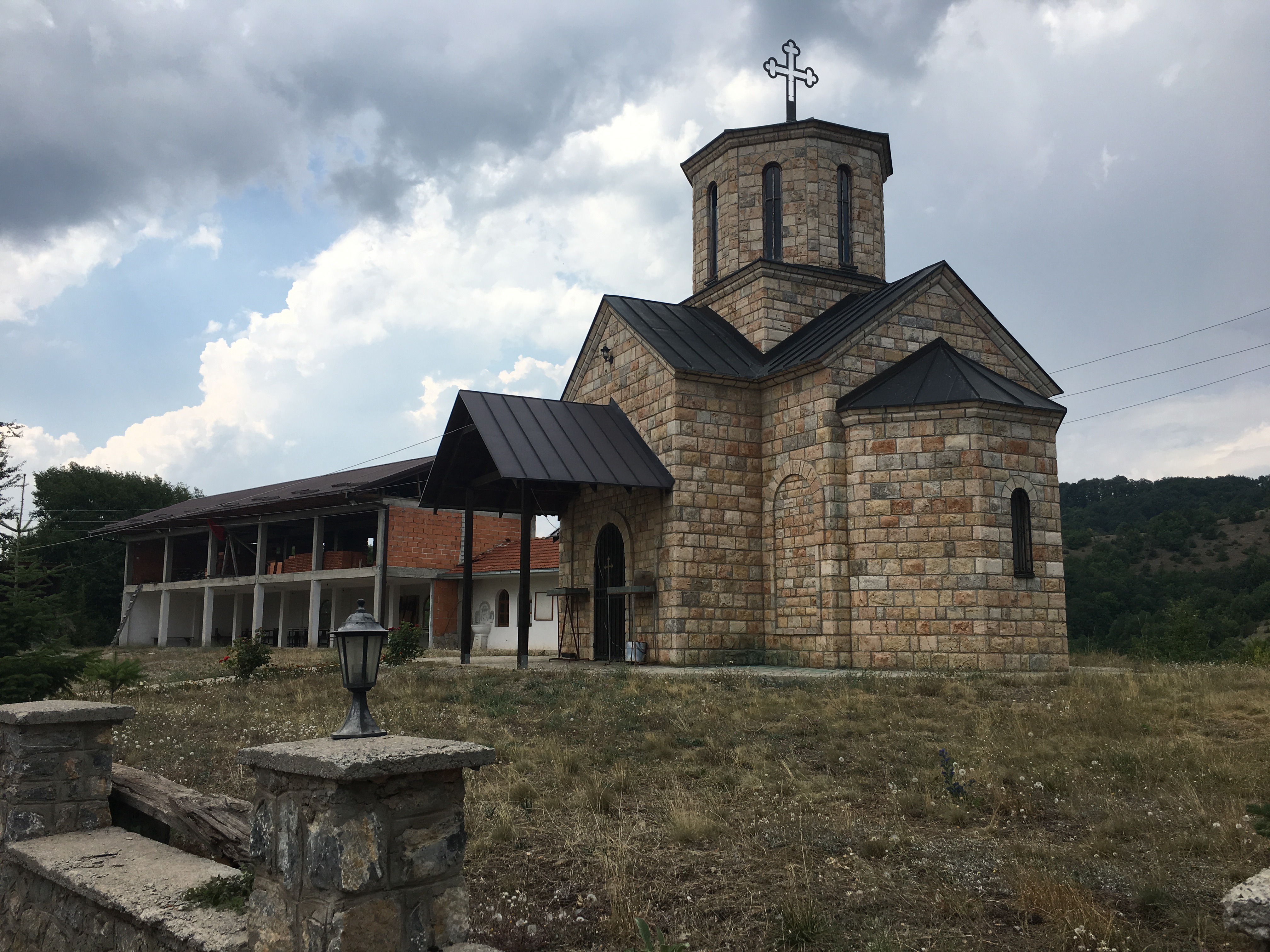 Kuratica Monastery